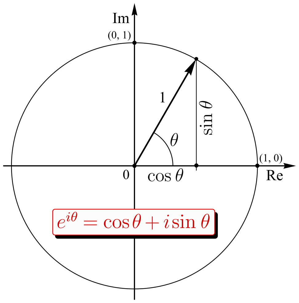 The Euler equation